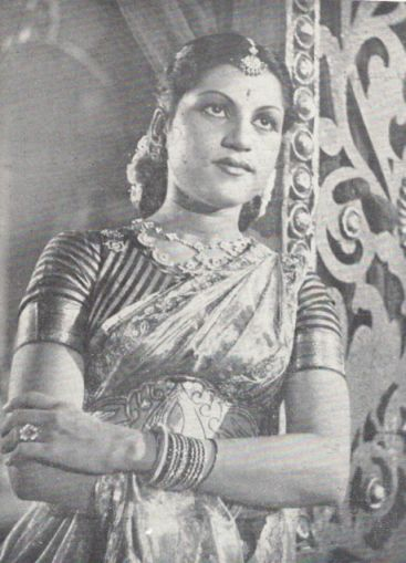 P. S. Saroja (1929 - ?), South Indian Tamil actress